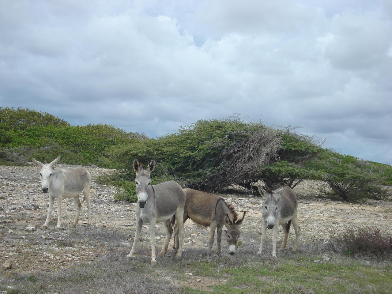 wild donkeys on the north side of the island